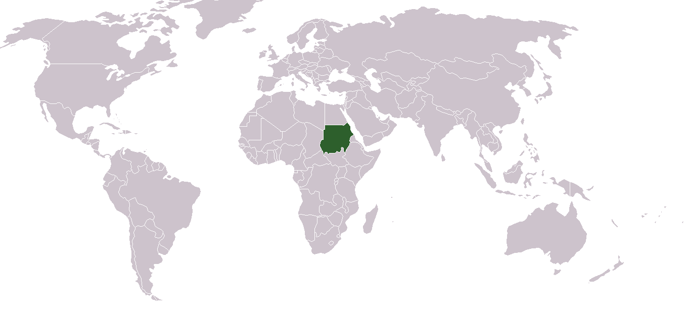 Summary Created by Clevelander from public domain Wikimedia Commons source 00:50, 13 April 2006 Clevelander 1427x628 (28197 bytes) ( Created by Clevelander from public domain Wikimedia Commons source PD-self )